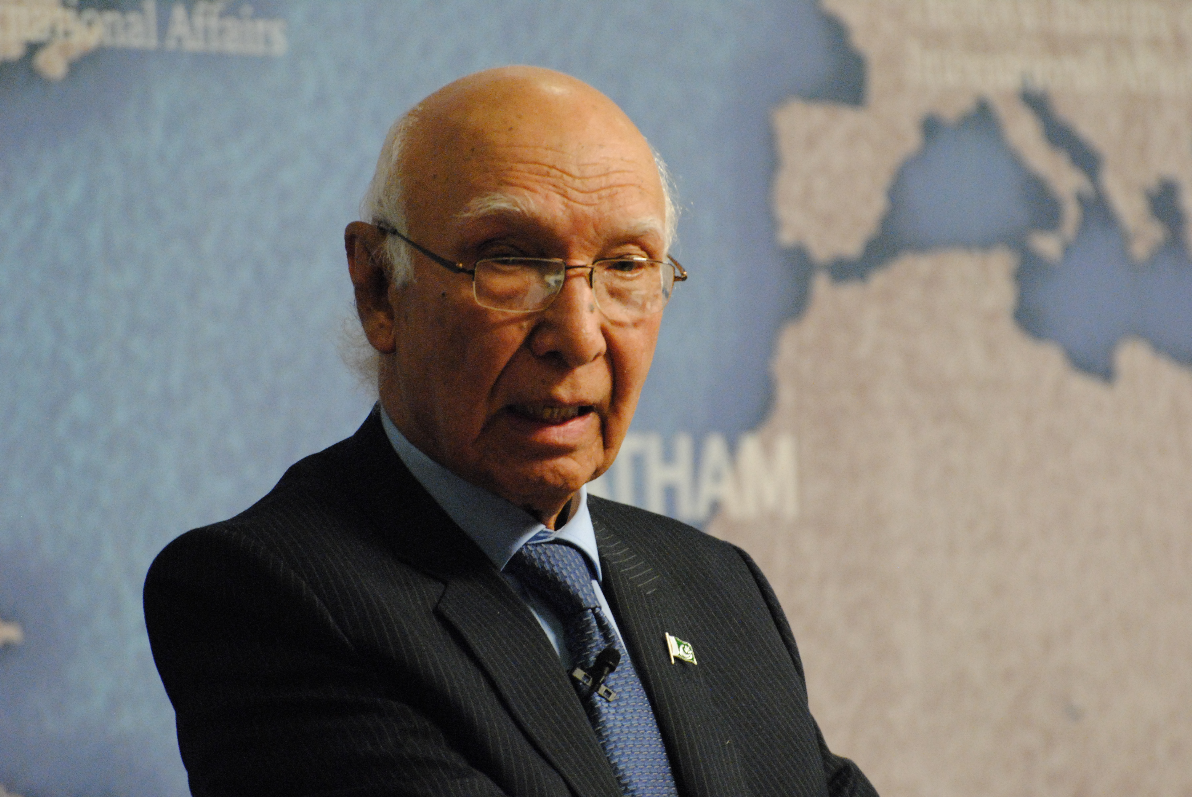 A Strategic Vision of Pakistan's Foreign Policy, 18 April 2016, cht.hm/1MCQuPa